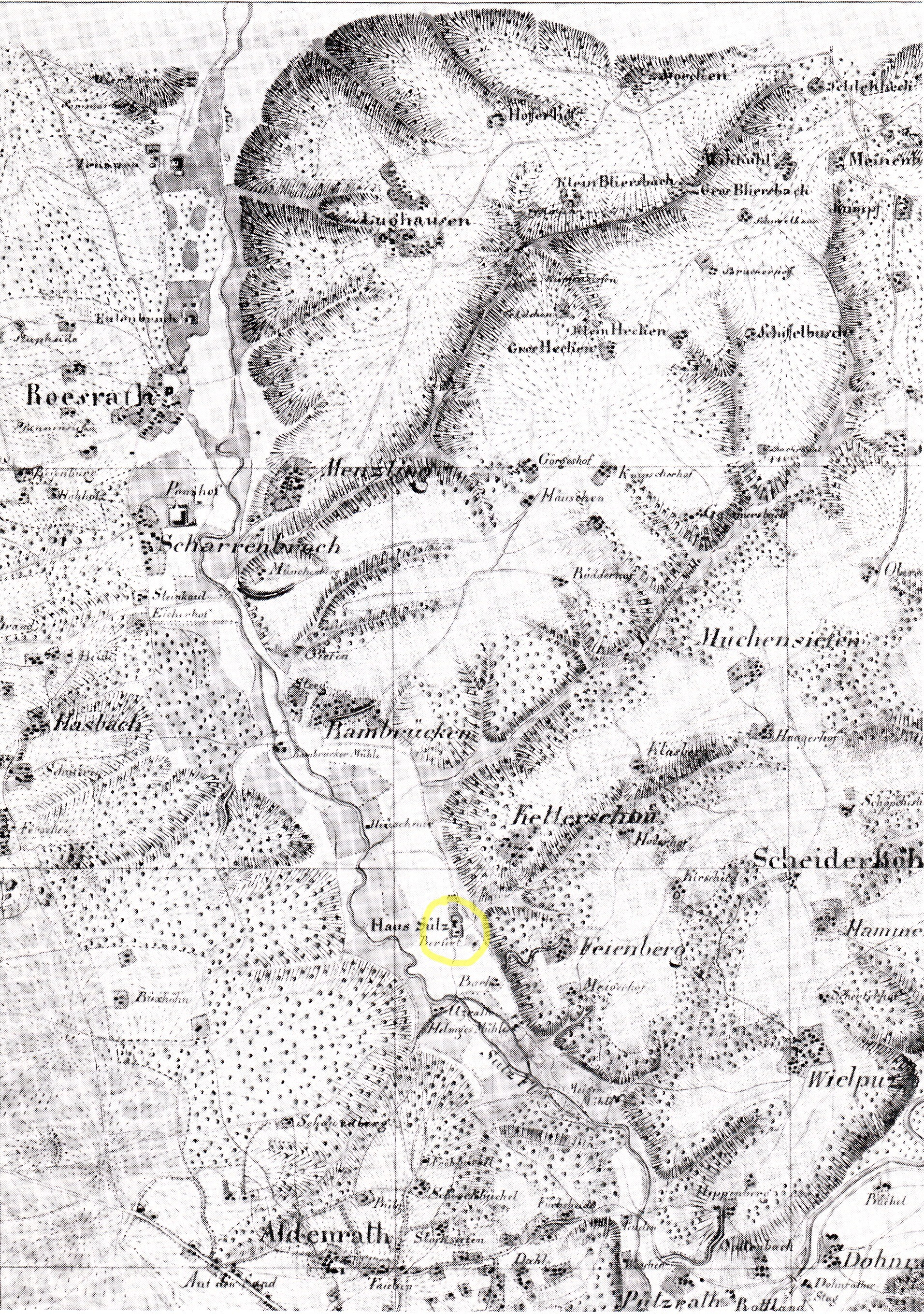 Location of Haus Sülz, Lohmar